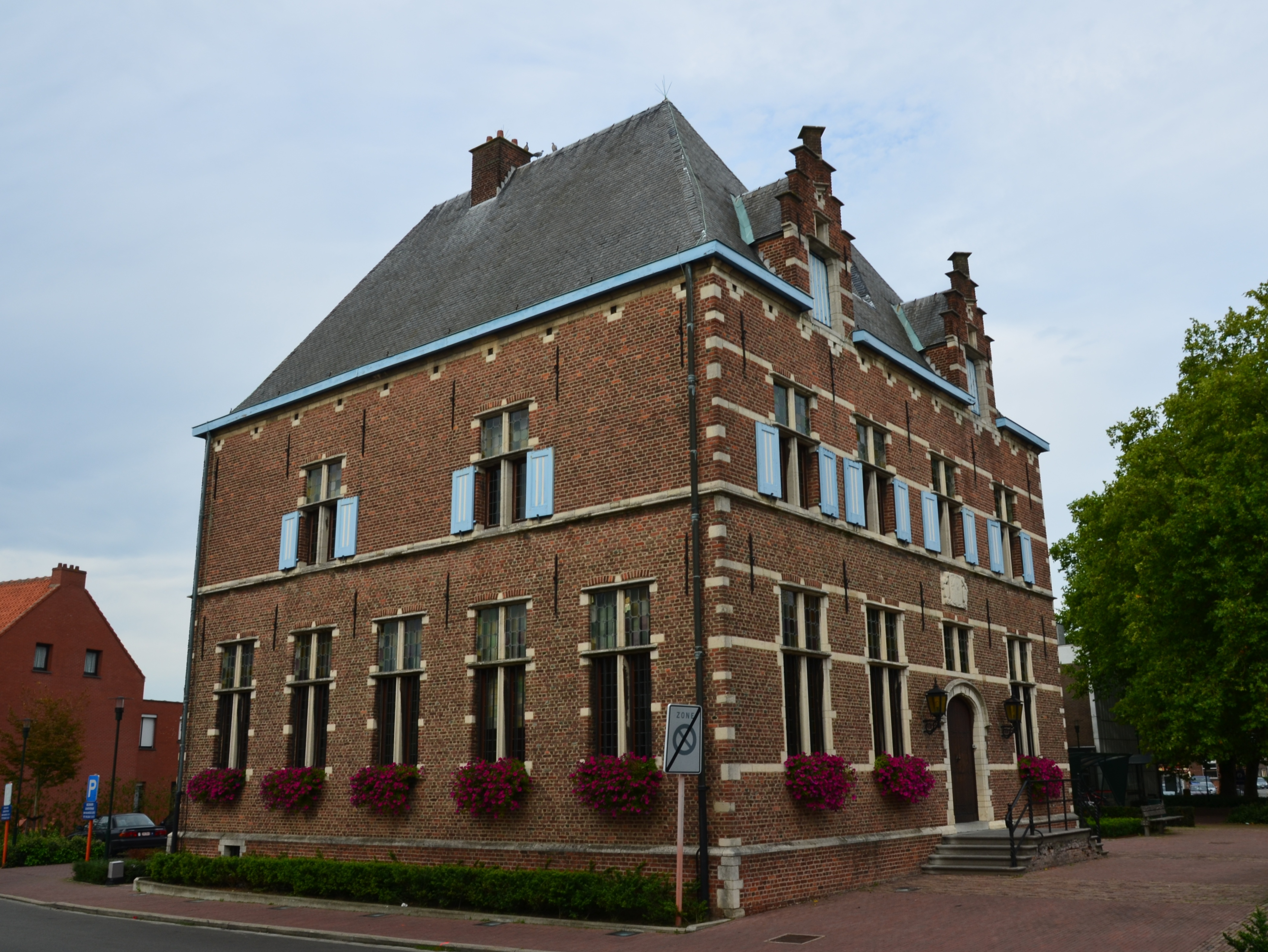 Picture of the facade and side wall of the town hall of Aartselaar, a building on the Flemish heritage list (number 12414)